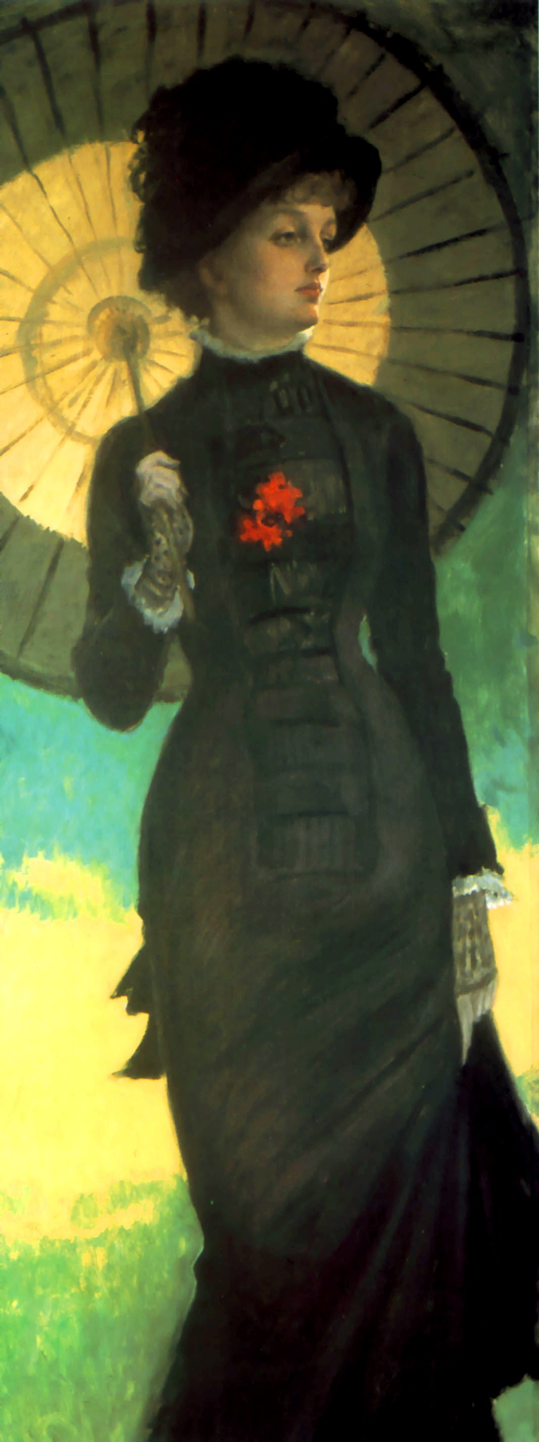 Mrs. Newton with a Parasol